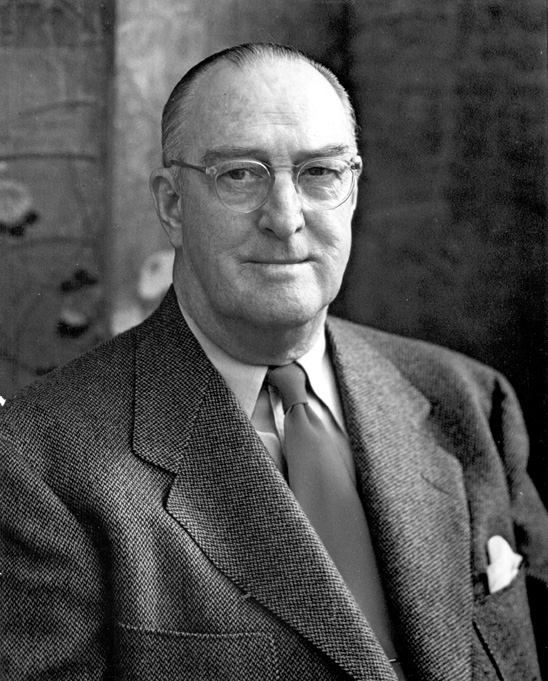 Catalog #: BIOB00402 Last Name: Boeing First Name: William E Notes: Repository: San Diego Air and Space Museum Archive